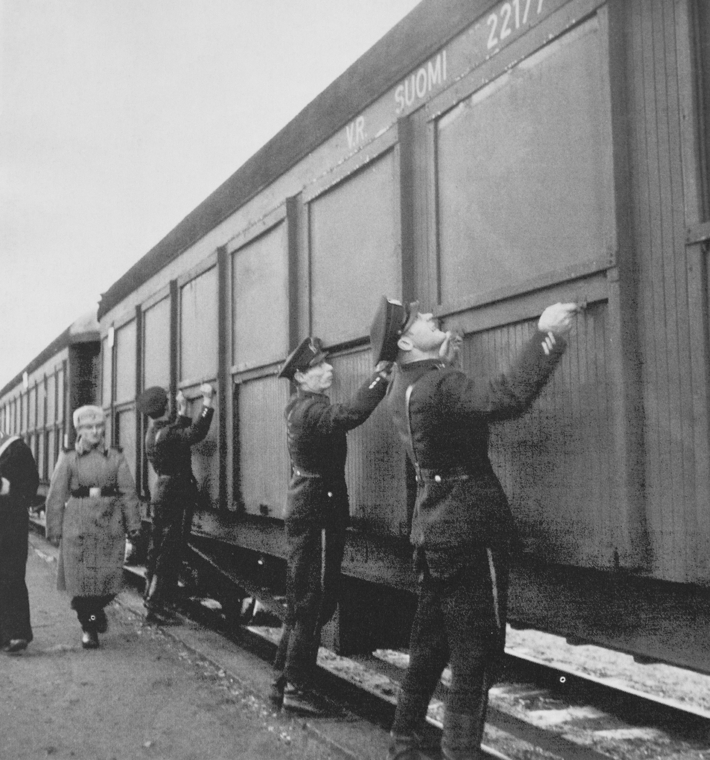 AZ area adventure travel "the world's longest railway tunnel", began at Kauklahti railway station, where the train windows were covered with flaps. They were taken out of the base after passing Tähtelä station.